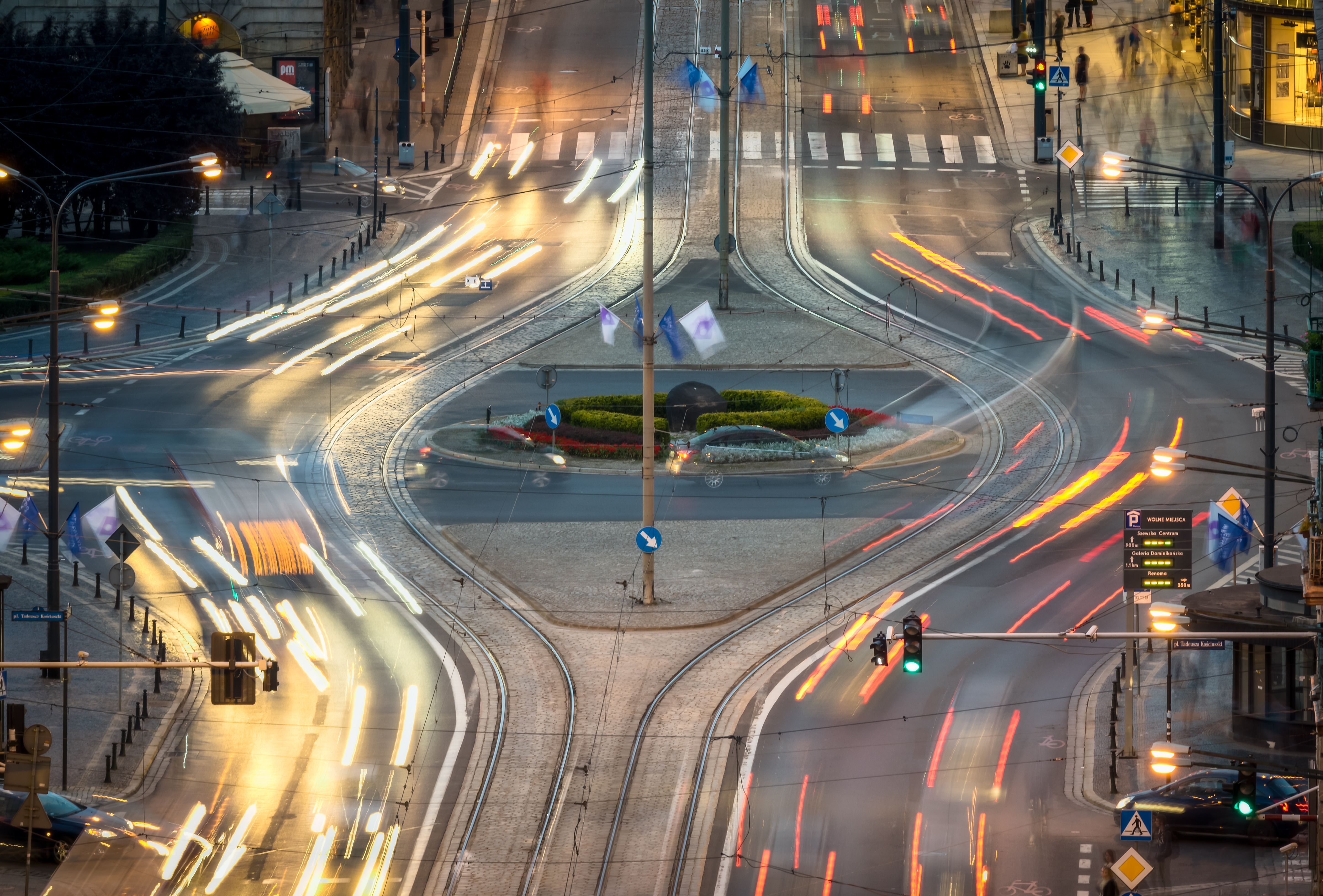 Kościuszki Square, Wrocław